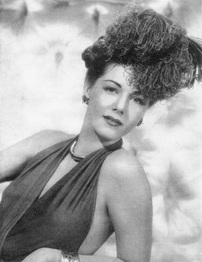 Publicity photo of Maria Montez for Argentinean Magazine. (Printed in USA)